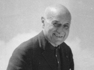 Jean Nohain, french television pionieer in 1969, see articles: Jean Nohain